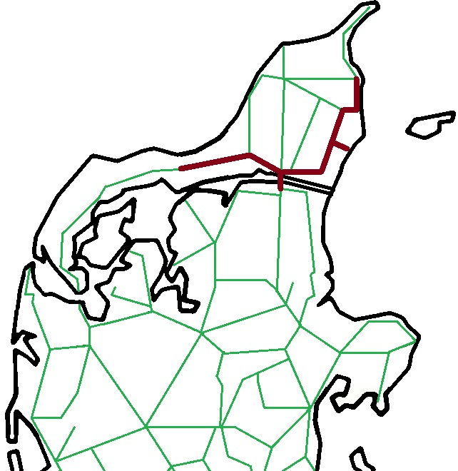 Map of railways in Northern Jutland in Denmark with the private railway Fjerritslev-Frederikshavn Jernbane in brown.